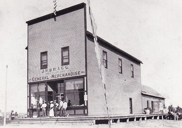 The Bragg general store located in Ogilvie, MN. 1900